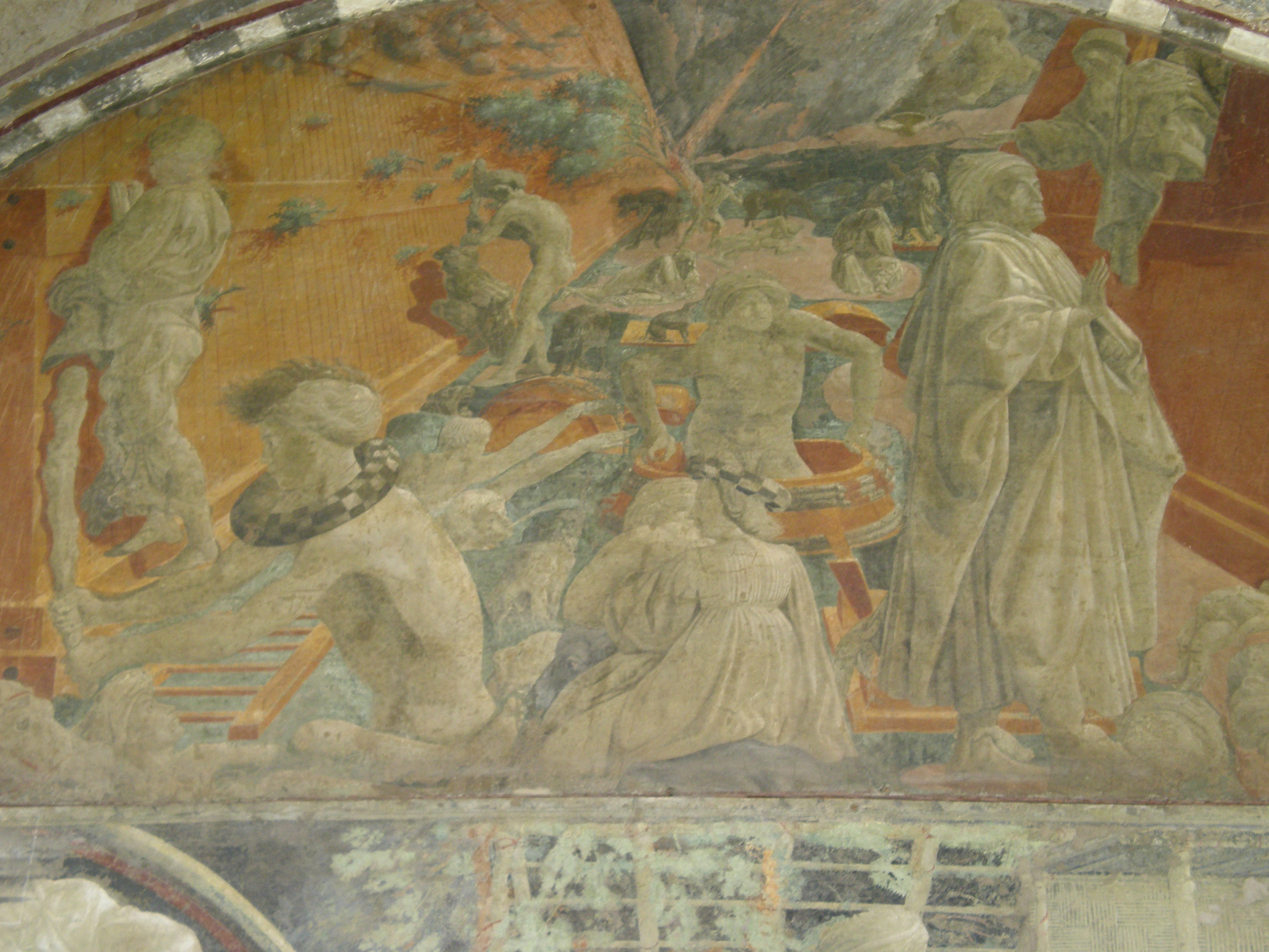 Artist Paolo Uccello (1397–1475) Description Italian painter Date of birth/deathcirca 139710 December 1475Location of birth/deathFlorenceFlorenceWork locationFlorence, Venice, UrbinoAuthority control VIAF: 39395712 LCCN: n86140444 GND: 118763350 BnF: cb12047348s ULAN: 500003110 ISNI: 0000 0001 2128 8320 WorldCat WP-Person Title